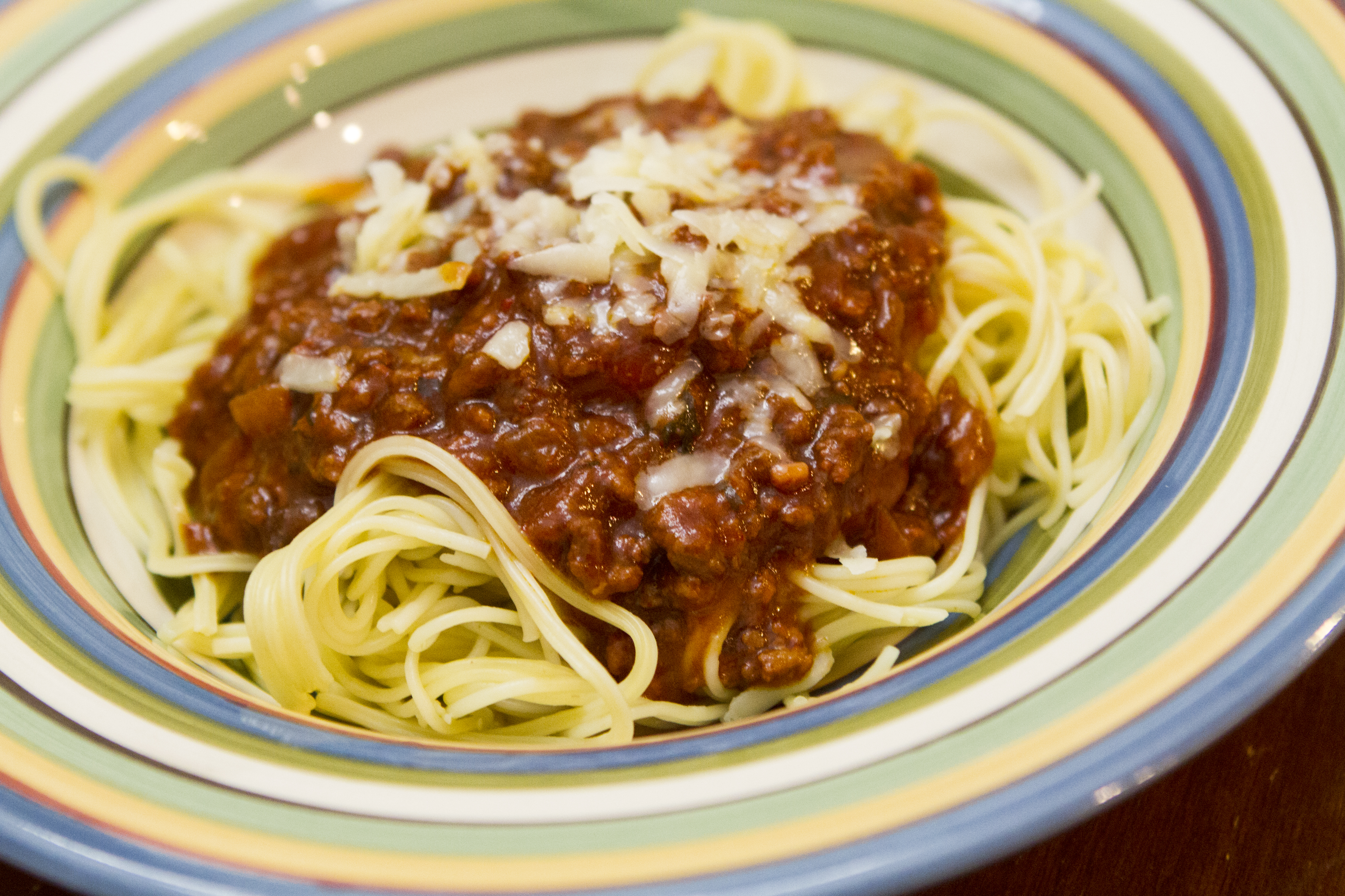 Spaghetti Filipino Recipe